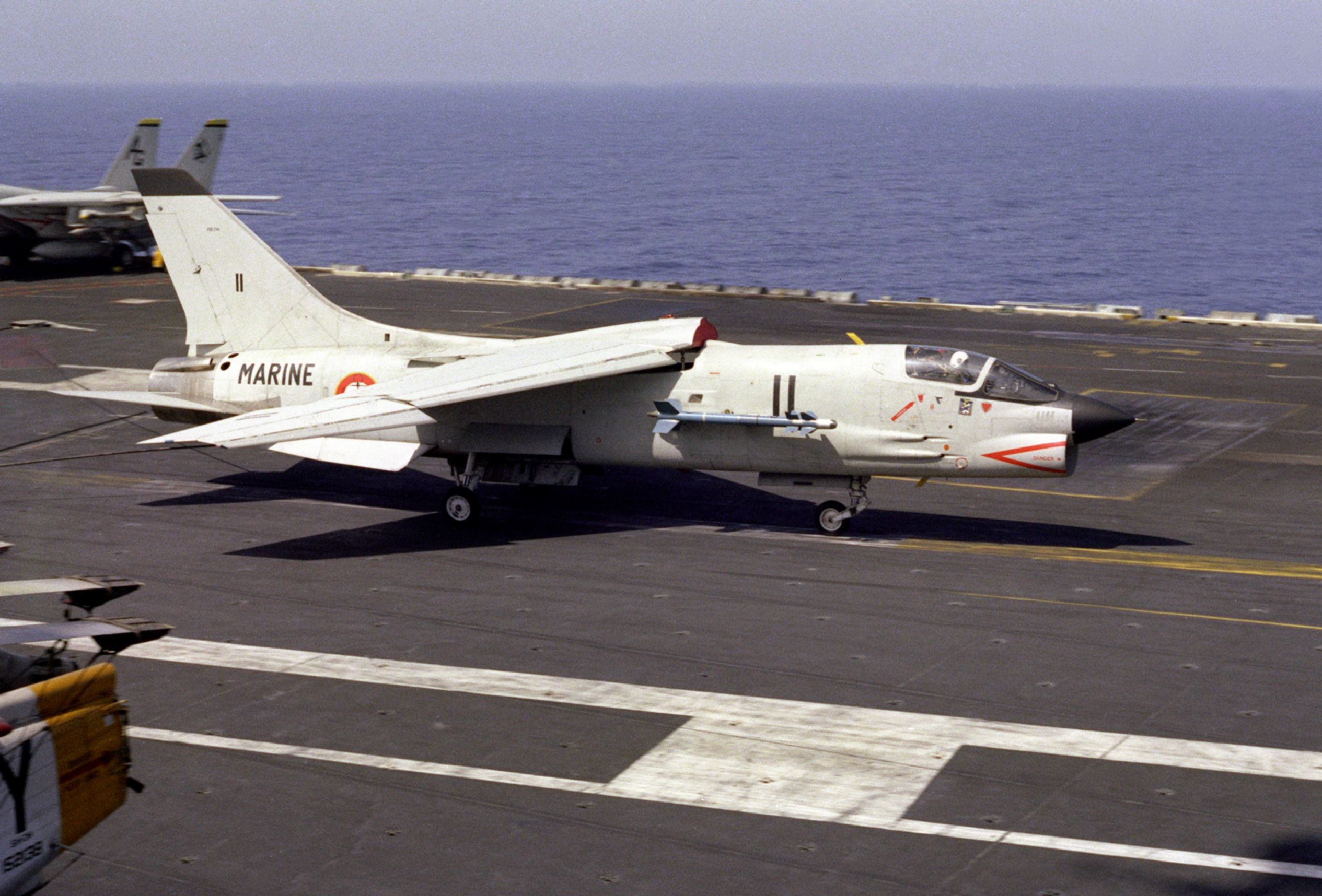 A Marine Nationale (French navy) Vought F-8E(FN) Crusader aircraft lands on the aircraft carrier USS Dwight D. Eisenhower (CVN-69) during joint operations off of Toulon, France, in 1983.